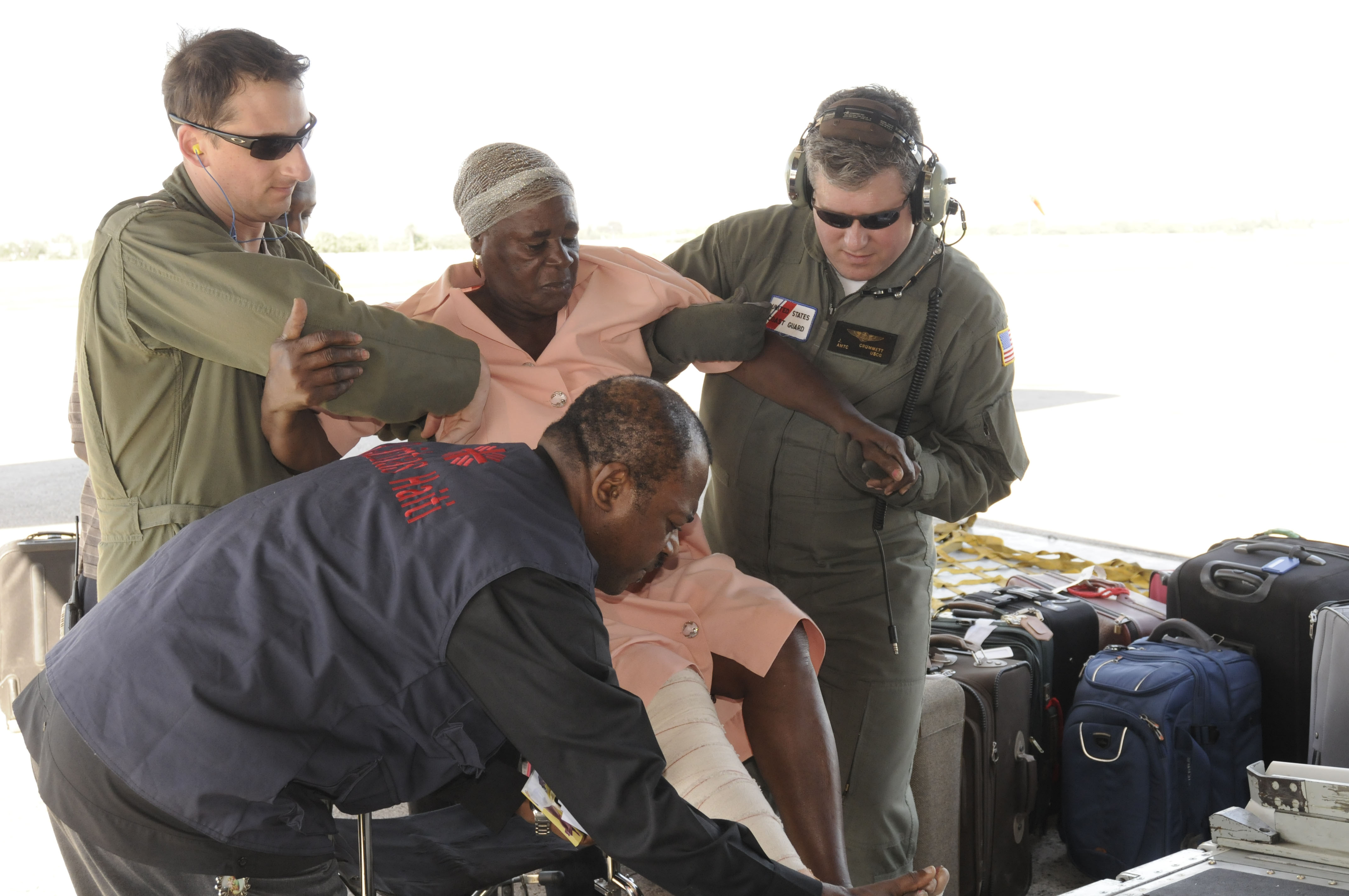 Coast Guard Lt. (JG) Jay Sandusky and Chief Petty Officer Jim Crummett of Air Station Clearwater, Fla., carry an injured woman onto the loading ramp of an HC-130 Hercules aircraft, Jan. 14, 2010, before departing for the Dominican Republic.